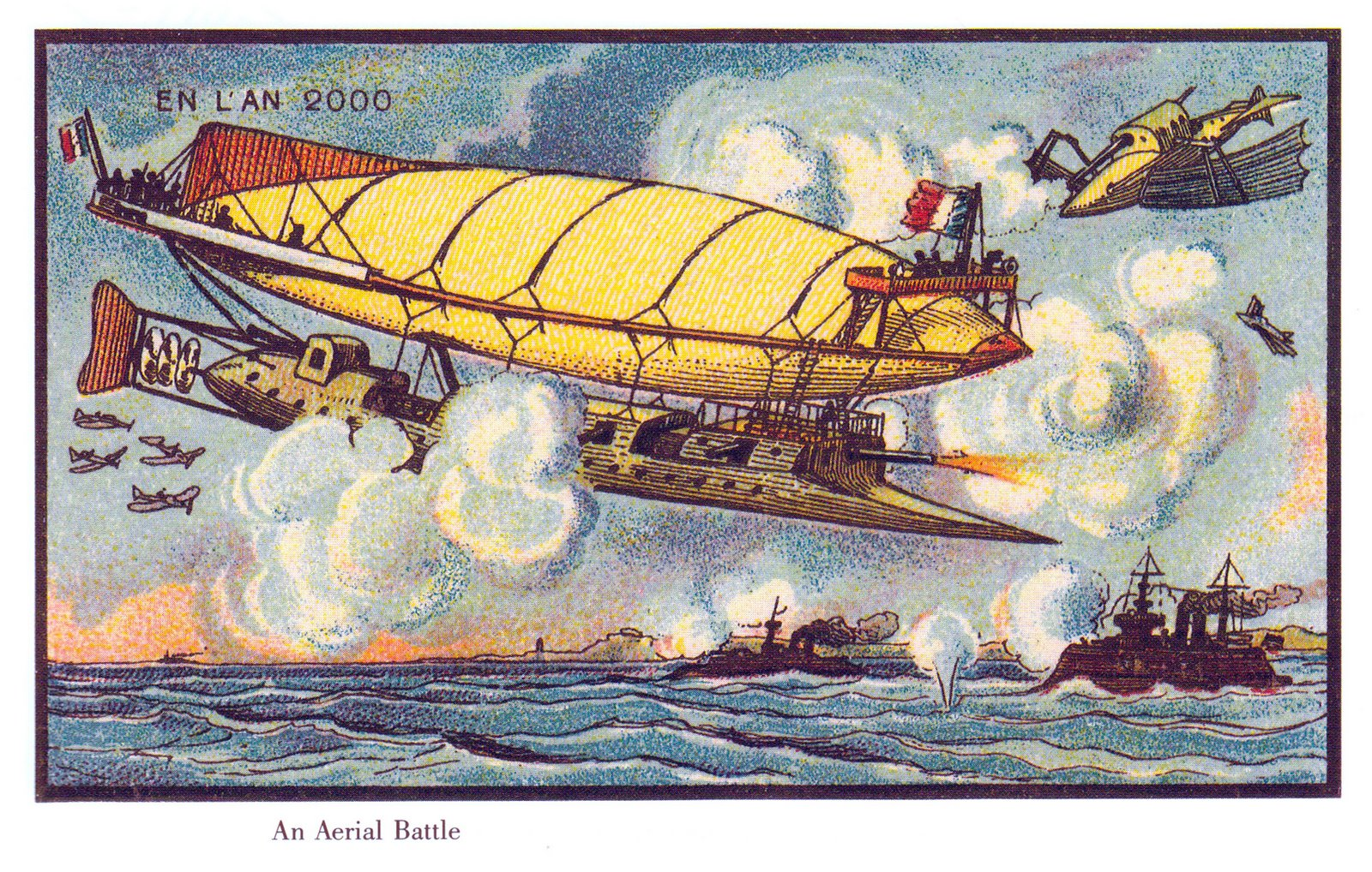 France in 2000 year (XXI century). France, paper card by Jean-Marc Côté.